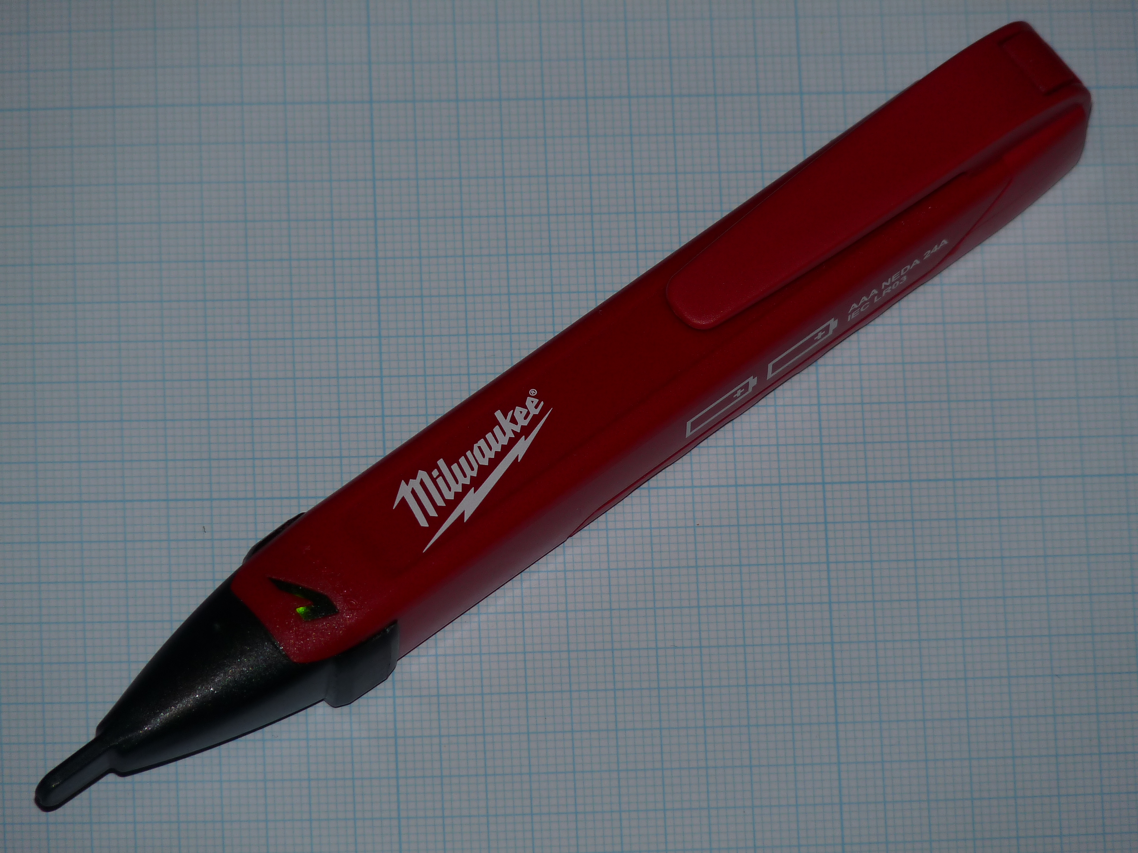 Wireless voltage probe